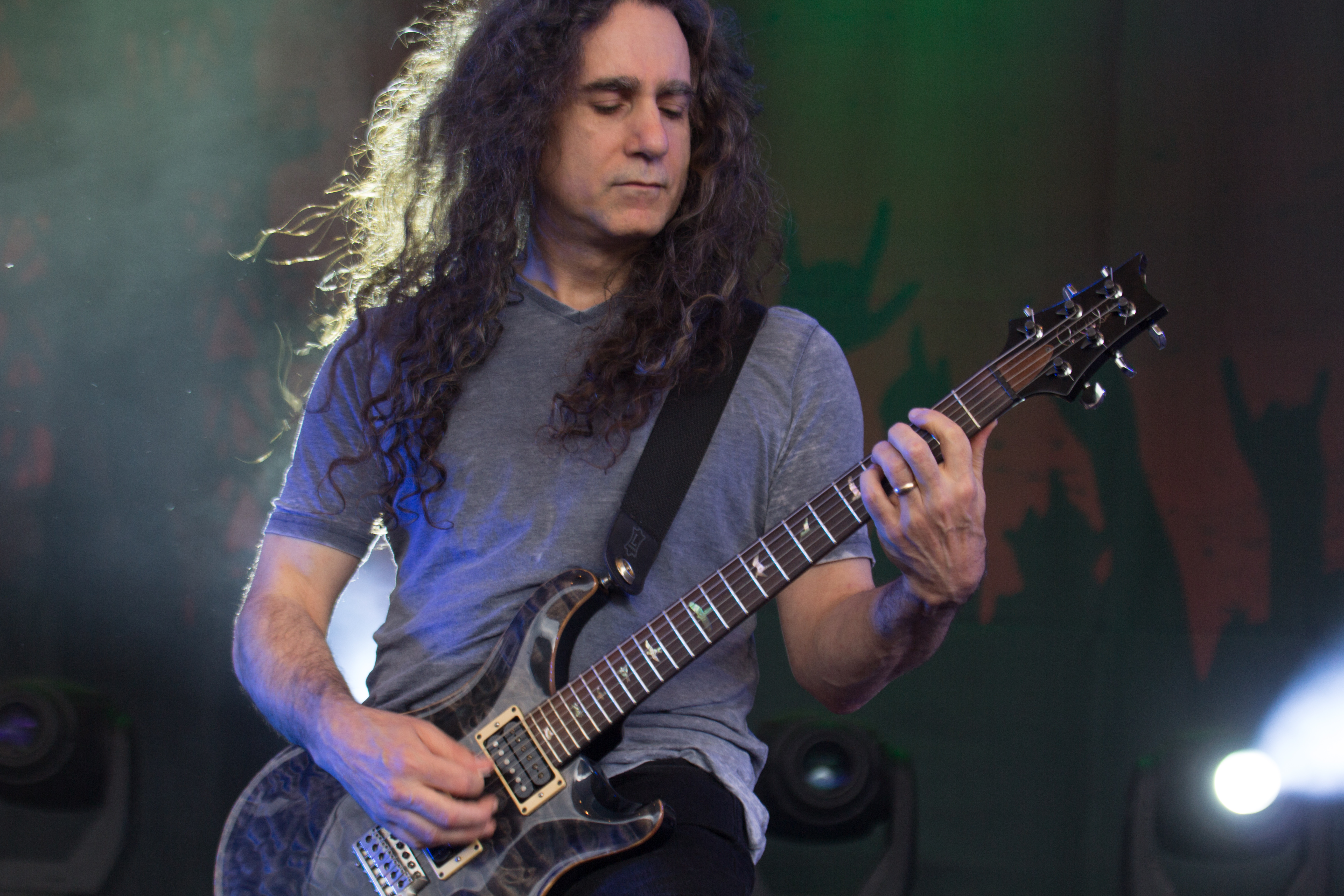 Fates Warning performing live at Rock Hard Festival 2017, Gelsenkirchen, Germany